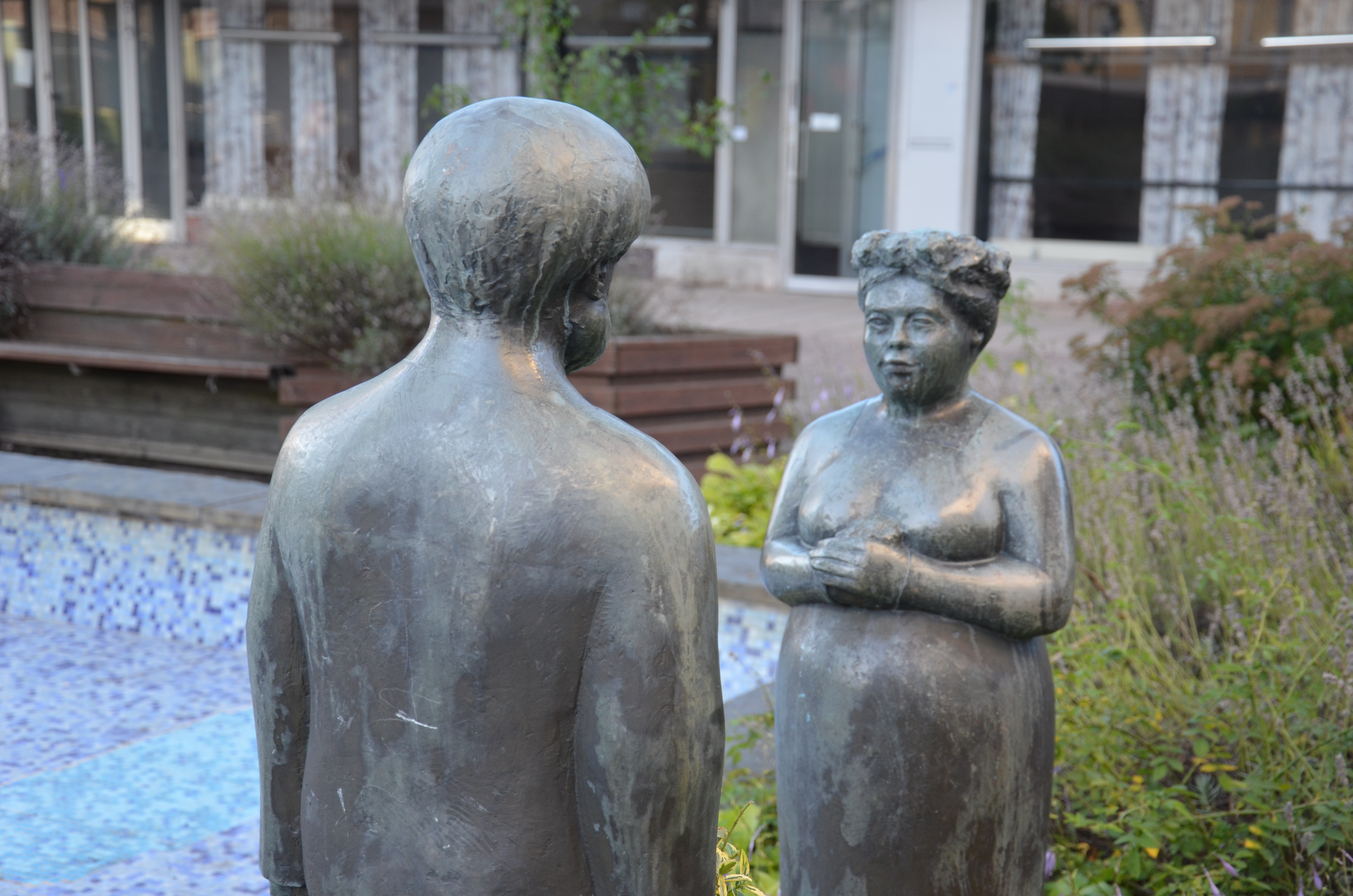 Arne Sa dströms Junibruden, brons, 1971, Tuletorget i Sundbyberg